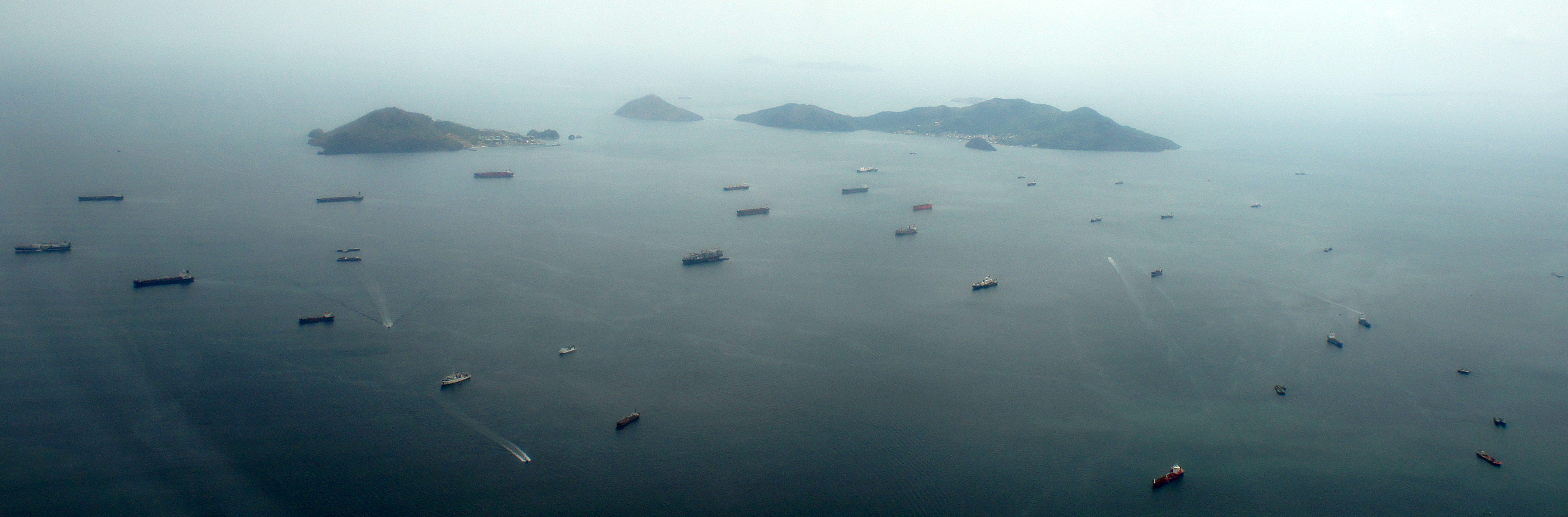 Vessels queuing at the Panama Bay waiting to enter the Panama Canal in the Pacific side. The islands in the background are from left to right, Toboguilla, Urubá and Taboga